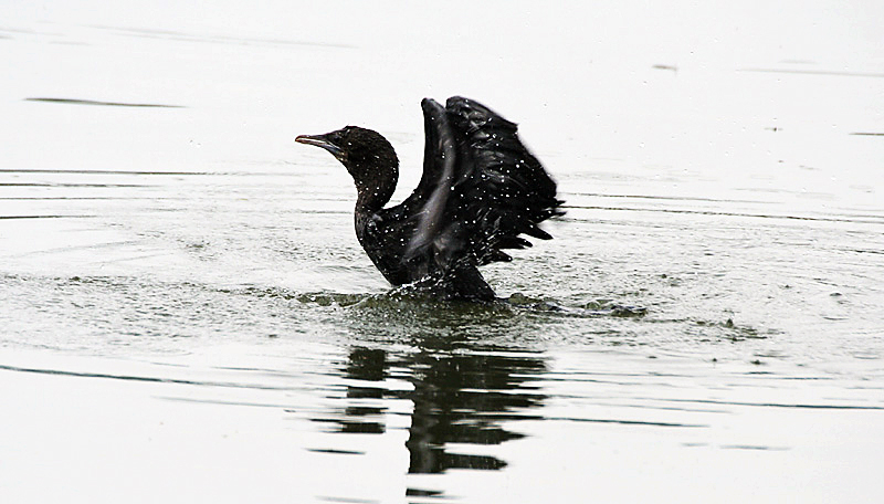 Little Cormorant Phalacrocorax niger in Kolkata, West Bengal, India.